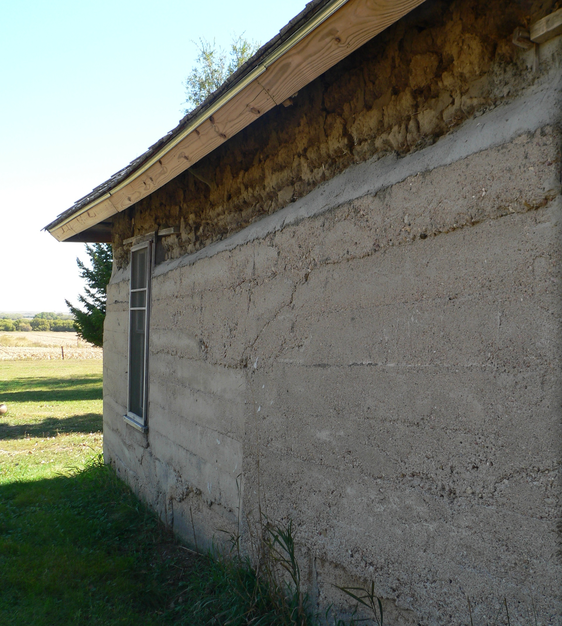 North exterior wall of William R. Dowse House, located southwest of Comstock in Custer County, Nebraska. The sod house was built in 1900, and is listed in the National Register of Historic Places. It is now open as a museum. Note the concrete covering most of the wall; the original sod construction is visible under the eaves. A closer picture of the upper portion, with the sod construction, is at File:Dowse sod house N wall upper detail.JPG.